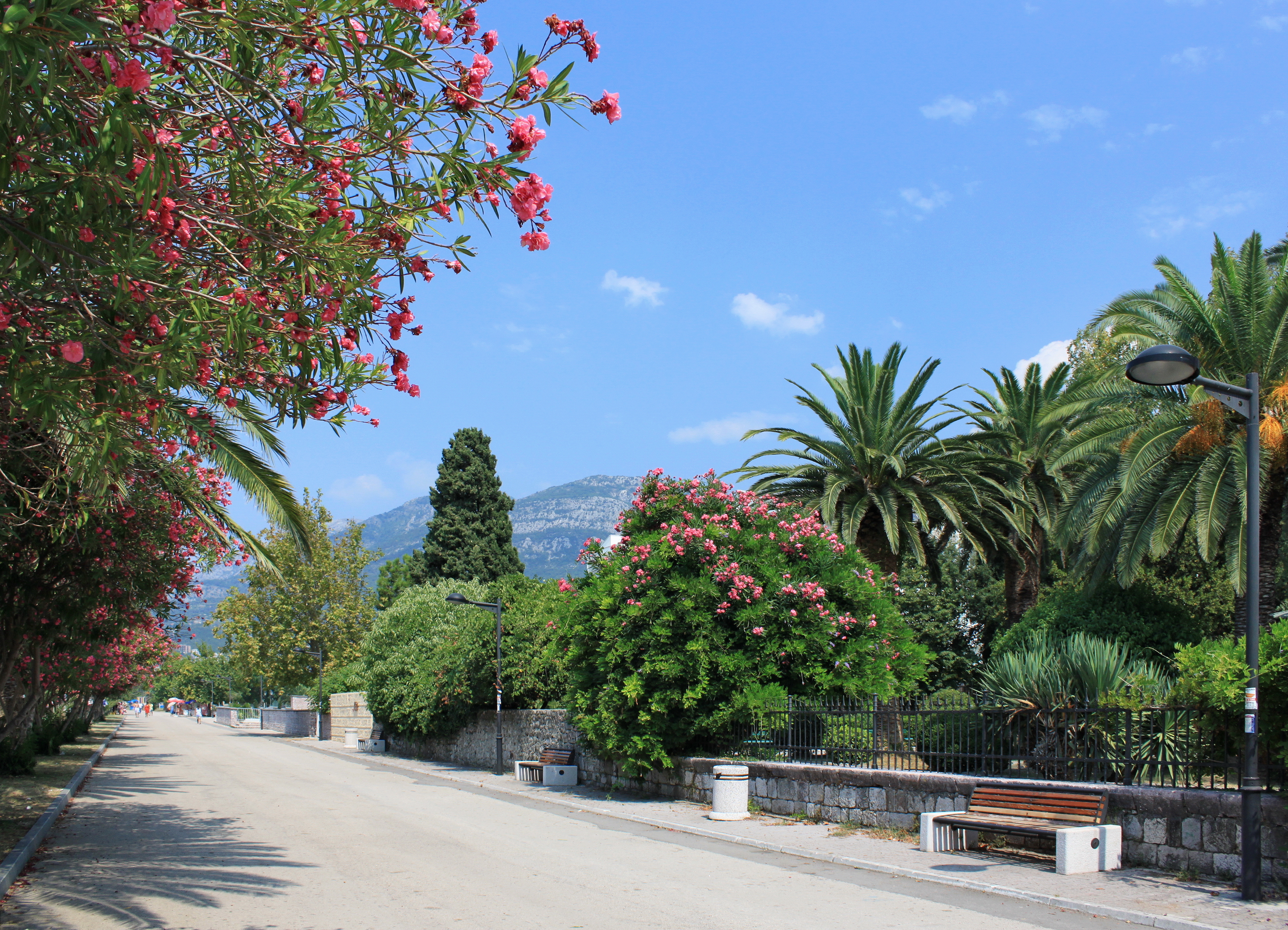 Promenade. Bar, Montenegro.